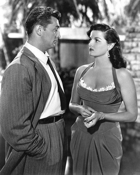 Photo of Jane Russell and Robert Mitchum from the 1951 film His Kind of Woman.